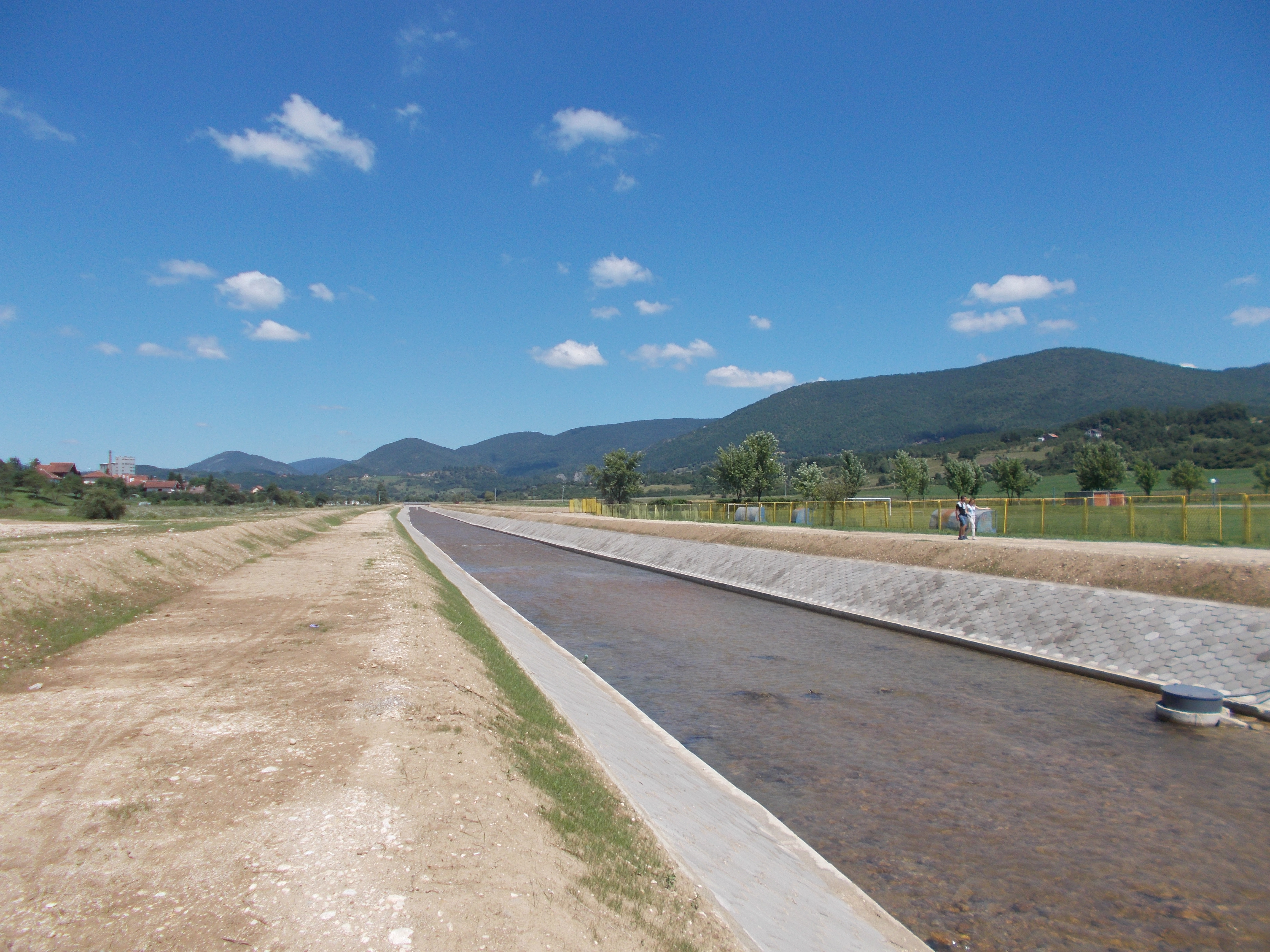 Rogatica, the surroundings